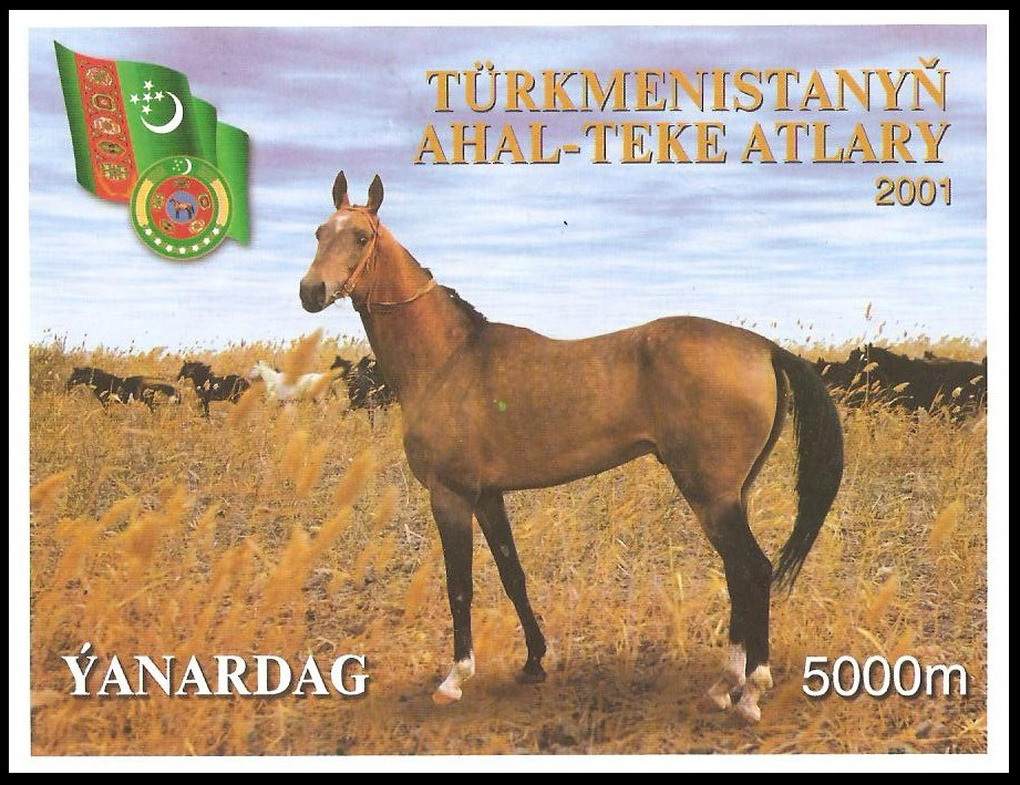 A 2001 miniature sheet from Turkmenistan. Akhal-Teke Horses. 5000 M. multicoloured. Akhal-Teke horse on the background of herd. Michel catalogue number: Block12